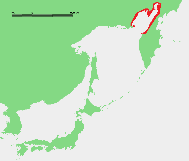 location map